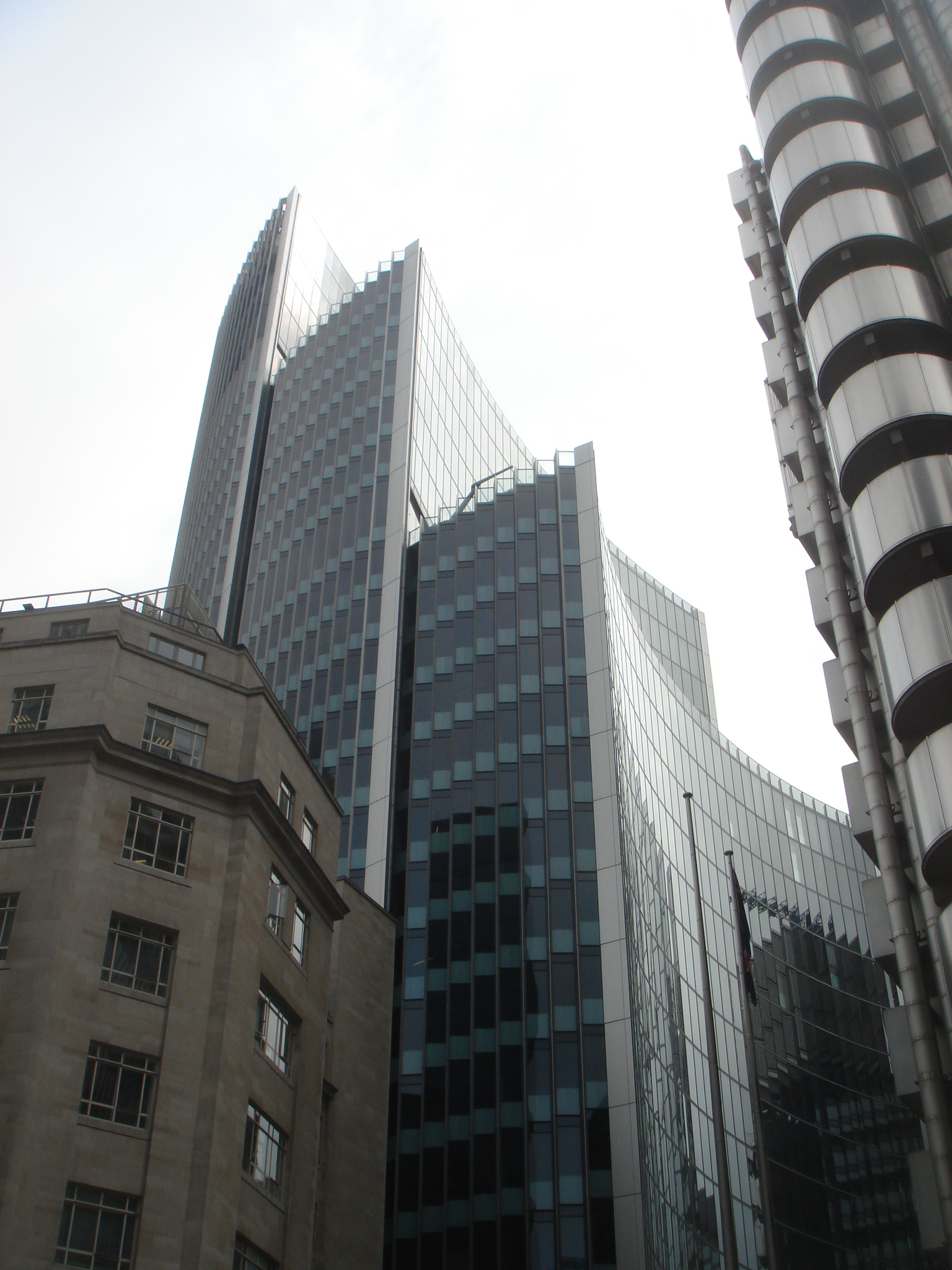 The Willis Building in the City of London, very near completion